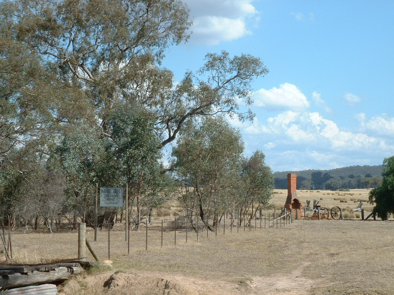 The ruins of Ned Kelly's home at Greta, Victoria.